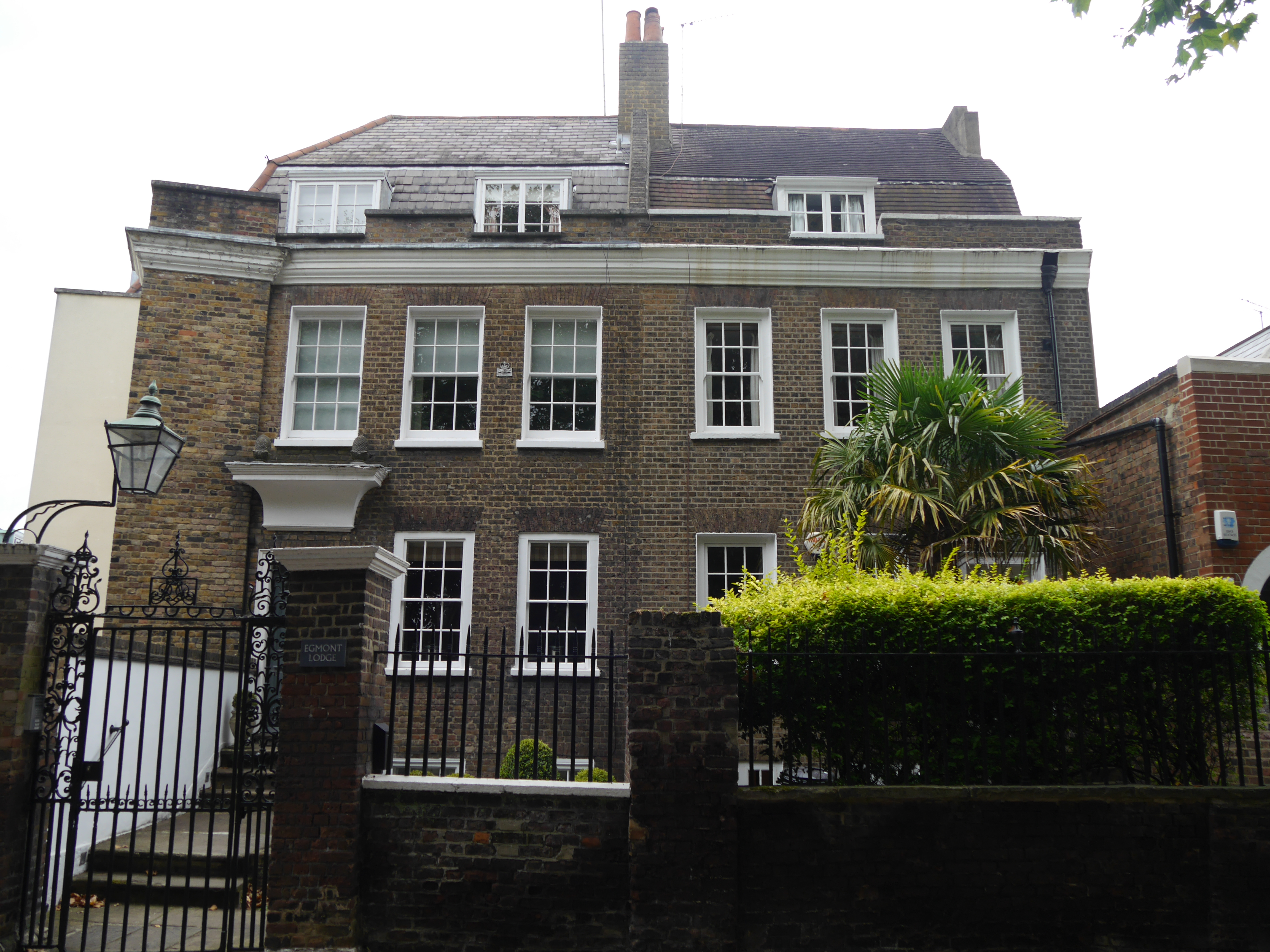 5 and 6 Church Gate, Fulham, September 2016